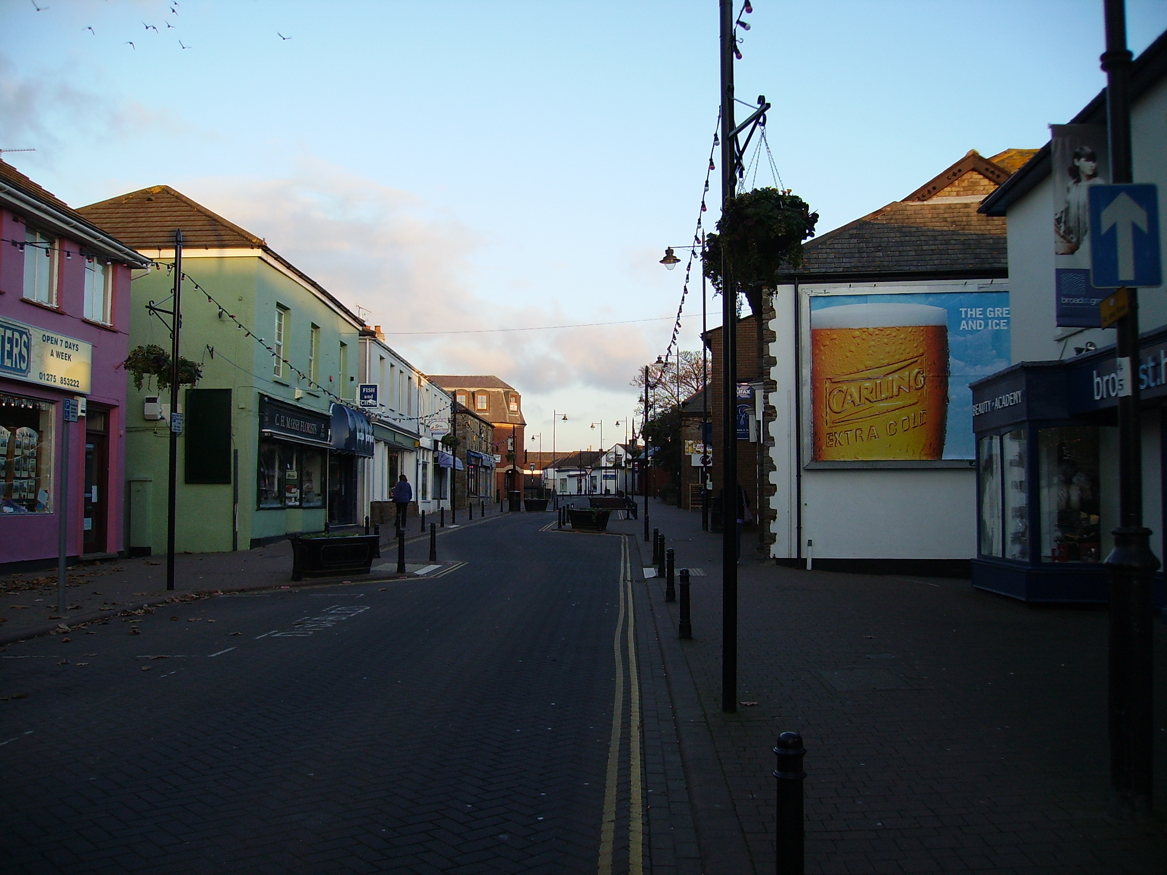 Nailsea High Street. Photographer: Chris Nevin All rights released by photographer.